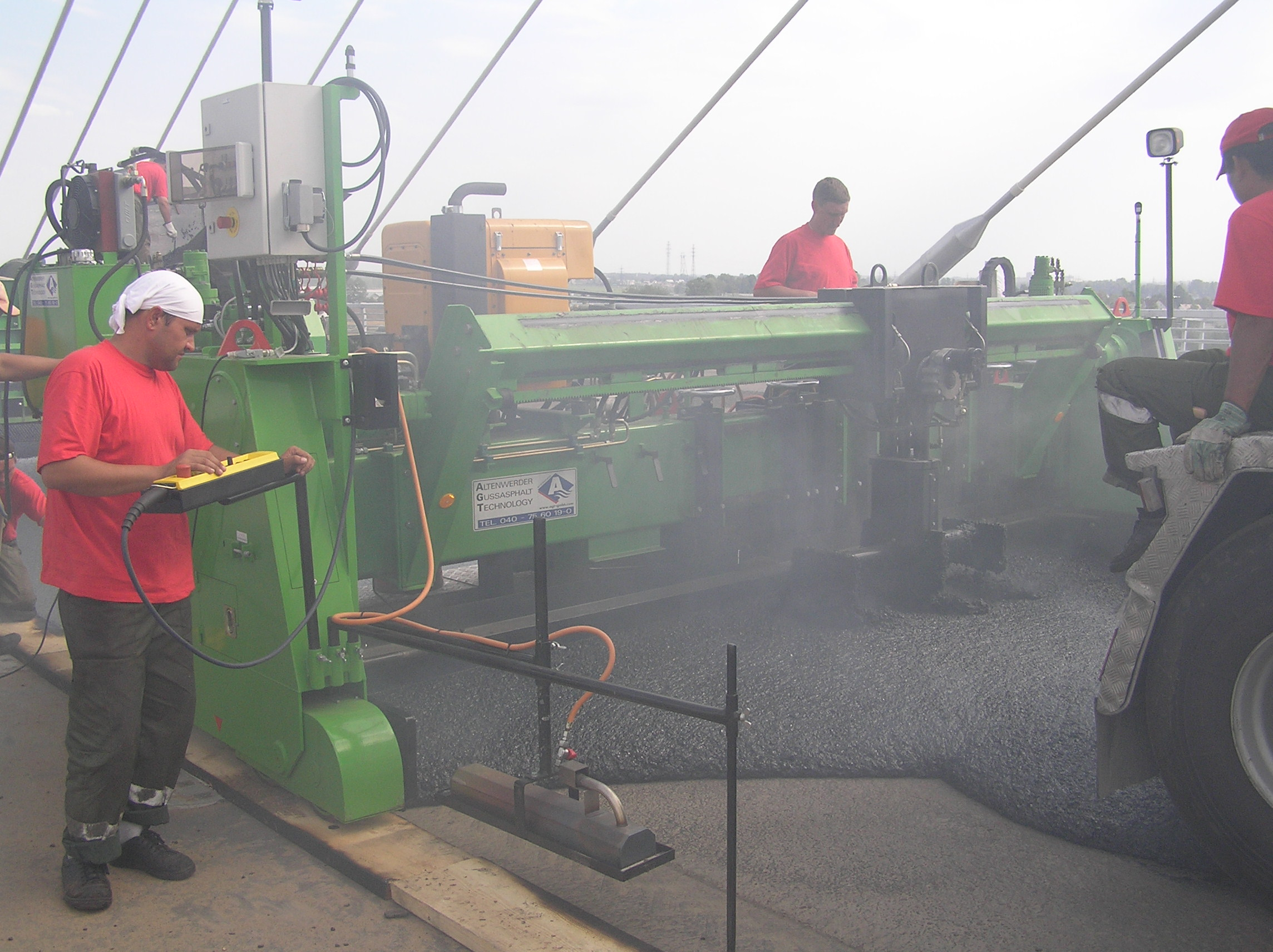 The Big Obukhovsky bridge, St. Petersburg, Russia. The orthotropic deck is coated with two layers of mastic asphalte concrete, 45 mm each, laid at t=212°C.